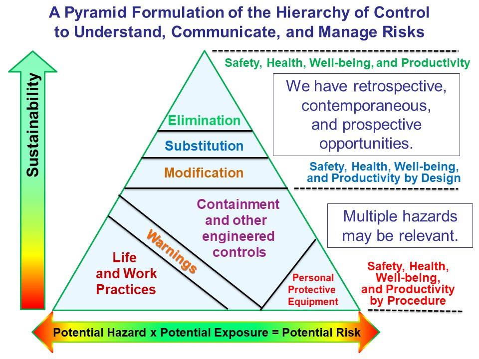 Components depicted in the pyramid formulation of the hierarchy of control are • Elimination of the presence or magnitude of the hazard (not always possible if the material or condition is essential to the activity objectives but sometimes possible in the case of objectives that can be achieved by methods such as computer simulation), • Substitution of a less hazardous material or procedure (sometimes possible, such as through the use of materially similar surrogates or the use of less dispersible materials or less energetic processes; however it is prudent to remember that “regrettable substitution” is a term that applies to situations in which assumptions about the risk-reduction advantages of the substitution turned out to be wrong, • Modification of the material or procedure to reduce hazards or exposures (sometimes considered a subset of the substitution option but explicitly considered here to mean that the efficacy of the modification for the situation at hand must be confirmed by the user), • Engineering controls to prevent exposures (includes a variety of physical containment and ventilation strategies), • Warnings to indicate the need for and status of control (explicitly considered in the pyramid formulation to be a distinct hierarchy option to clarify the details of any warnings being used and to emphasize the growing capabilities and availability of real time sensors and monitors; whereas in other systems, warnings are sometimes considered part of engineered controls and sometimes part of administrative controls), • Administrative and work procedures to prevent exposures and confirm protection (an approach that relies highly on training and compliance), and finally, as the last barrier to exposure, • Personal protective equipment (including respiratory protection).